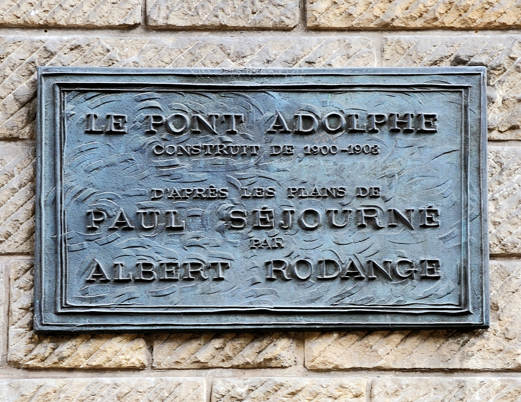 Luxembourg City: plaque on the Adolphe Bridge.